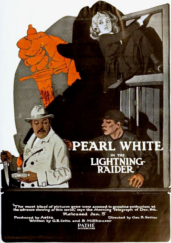 Ad for the American film serial The Lightning Raider (1919) with Pearl White and Warner Oland, on page 25 of the January 4, 1919 Moving Picture World.